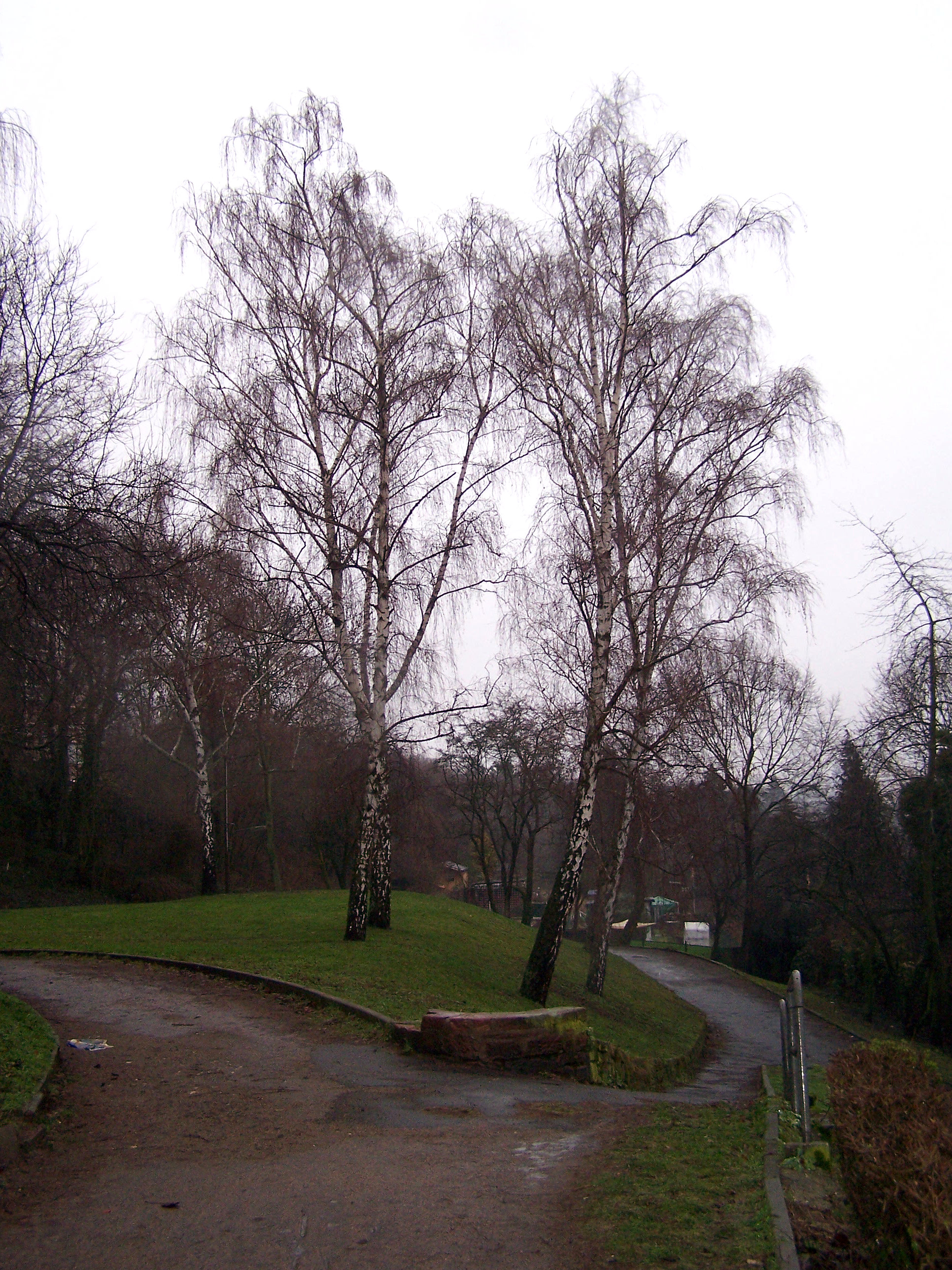 Bornheimer Hang in Frankfurt am Main-Bornheim, view to north, in December 2009